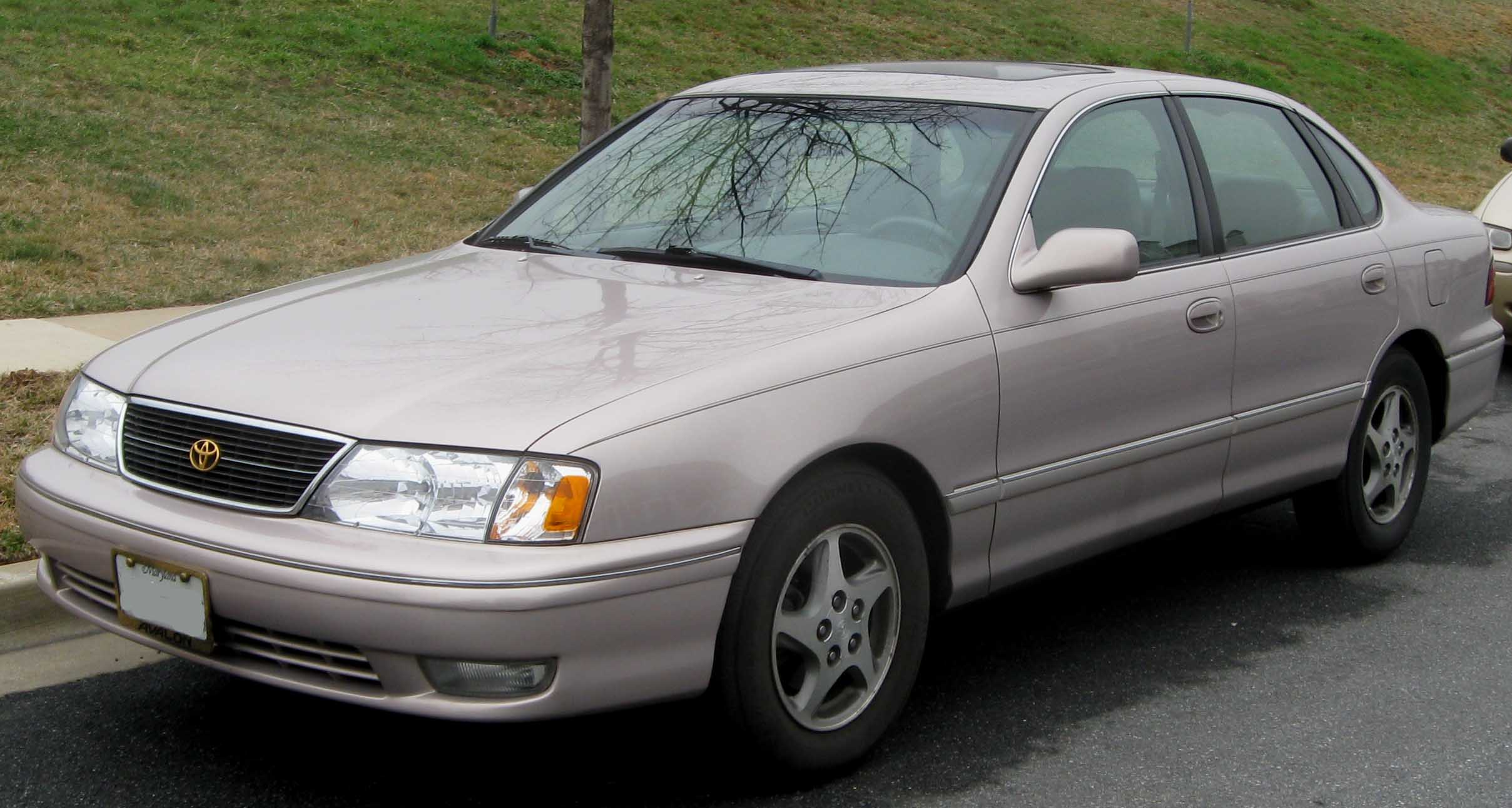 1998-1999 Toyota Avalon photographed in Rockville, Maryland, USA.